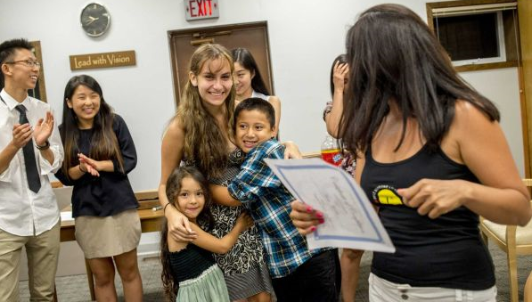 The English Language Center at Ascension Lutheran Church, Deer Park